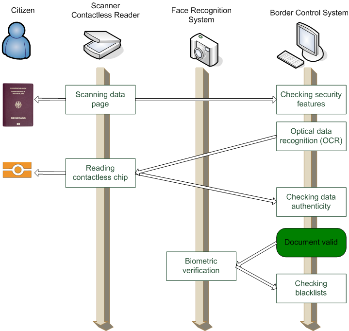 The figure describes a typical simplified workflow of an automatic border control system (eGate) using an electronic Passport